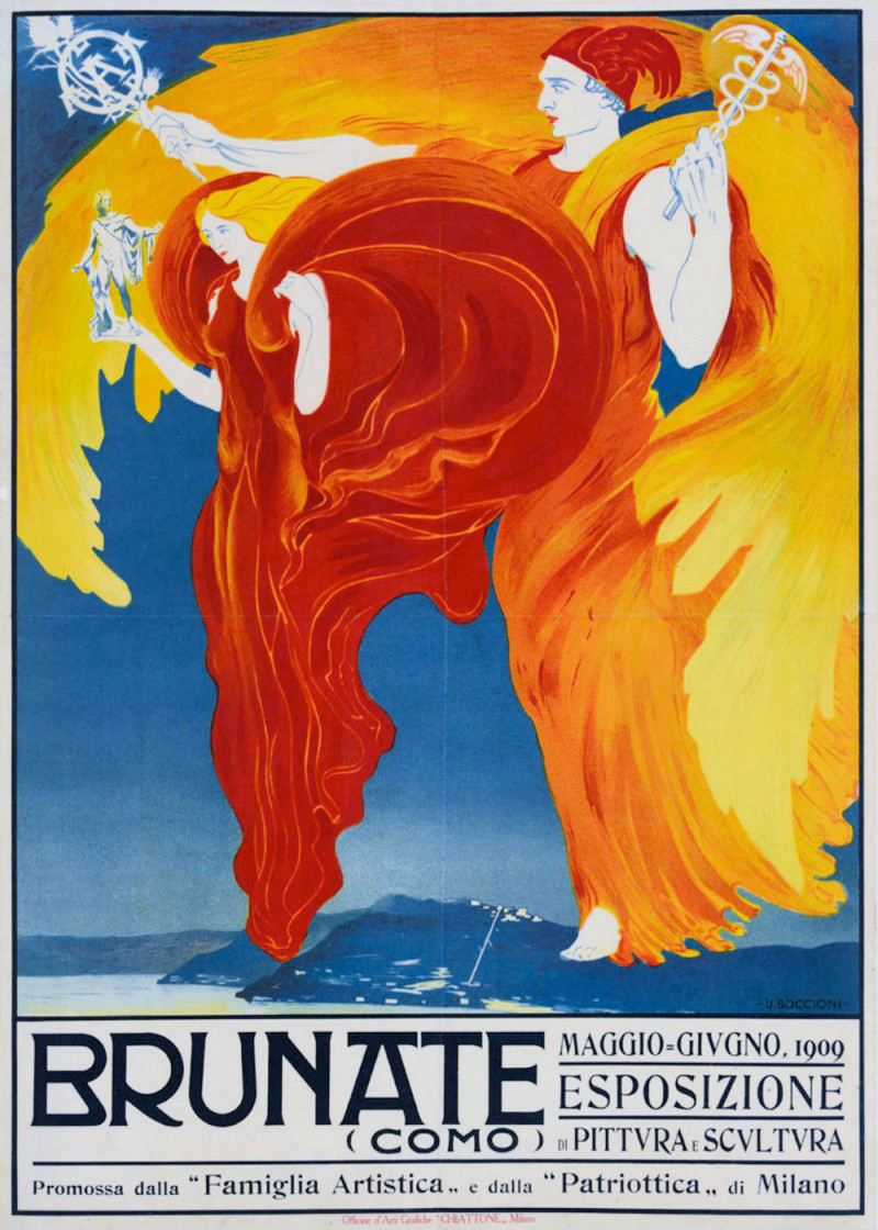 Poster by Umberto Boccioni.